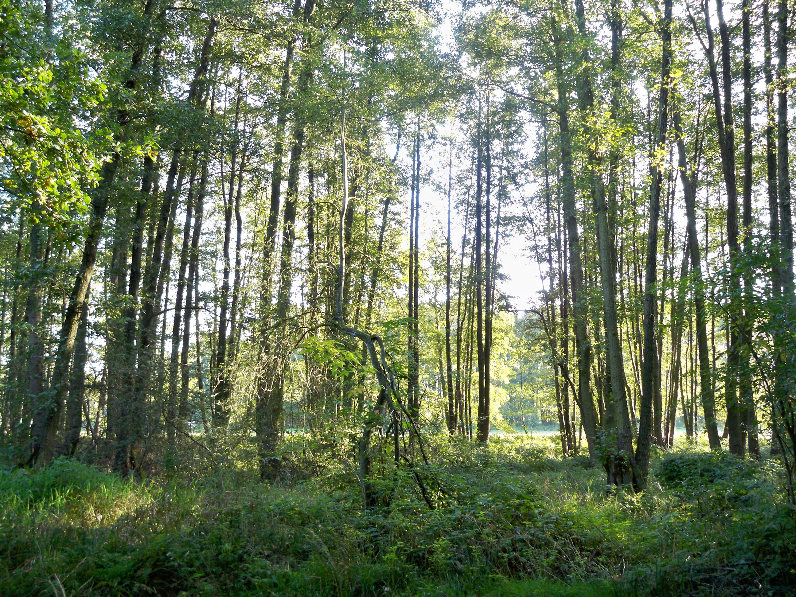 Wolfsburg-Wendschott, Lower Saxony, brook in nature reserve